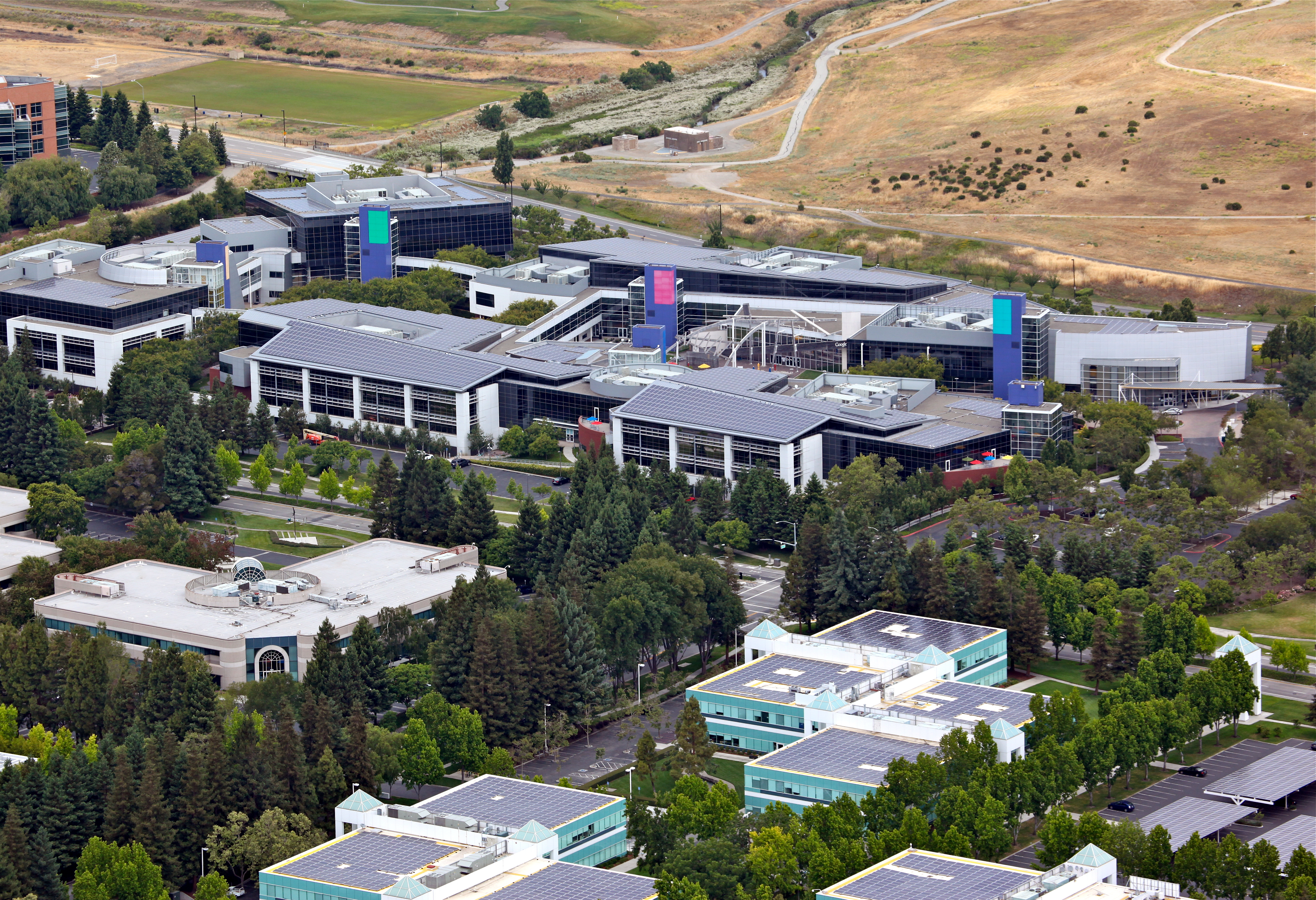 The Googleplex rooftops and car parks %u2014 blanketed in solar cells as seen from the Zeppelin NT (with Marissa Mayer pointing out her office window) on our Geek Tour of Silicon Valley.